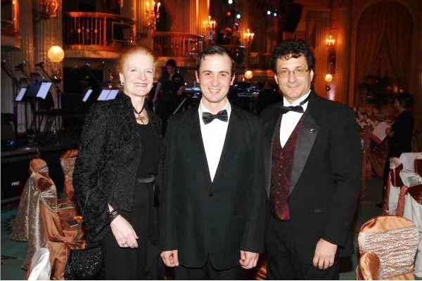 Giorgi Latsabidze, Carol Hogel, Dean Cutietta from USC at the Charles Dickens Dinner; USC Thornton School of Music, Los Angeles 2008